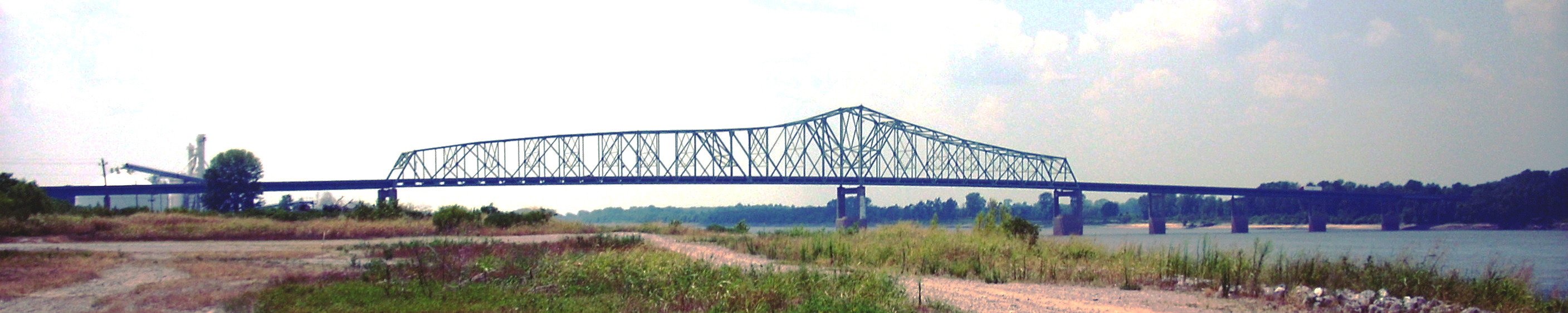 Caruthersville Bridge